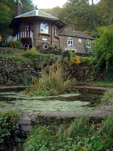 St Annes Well and Tearooms, Malvern. The Victorian building which houses the well and tearooms.